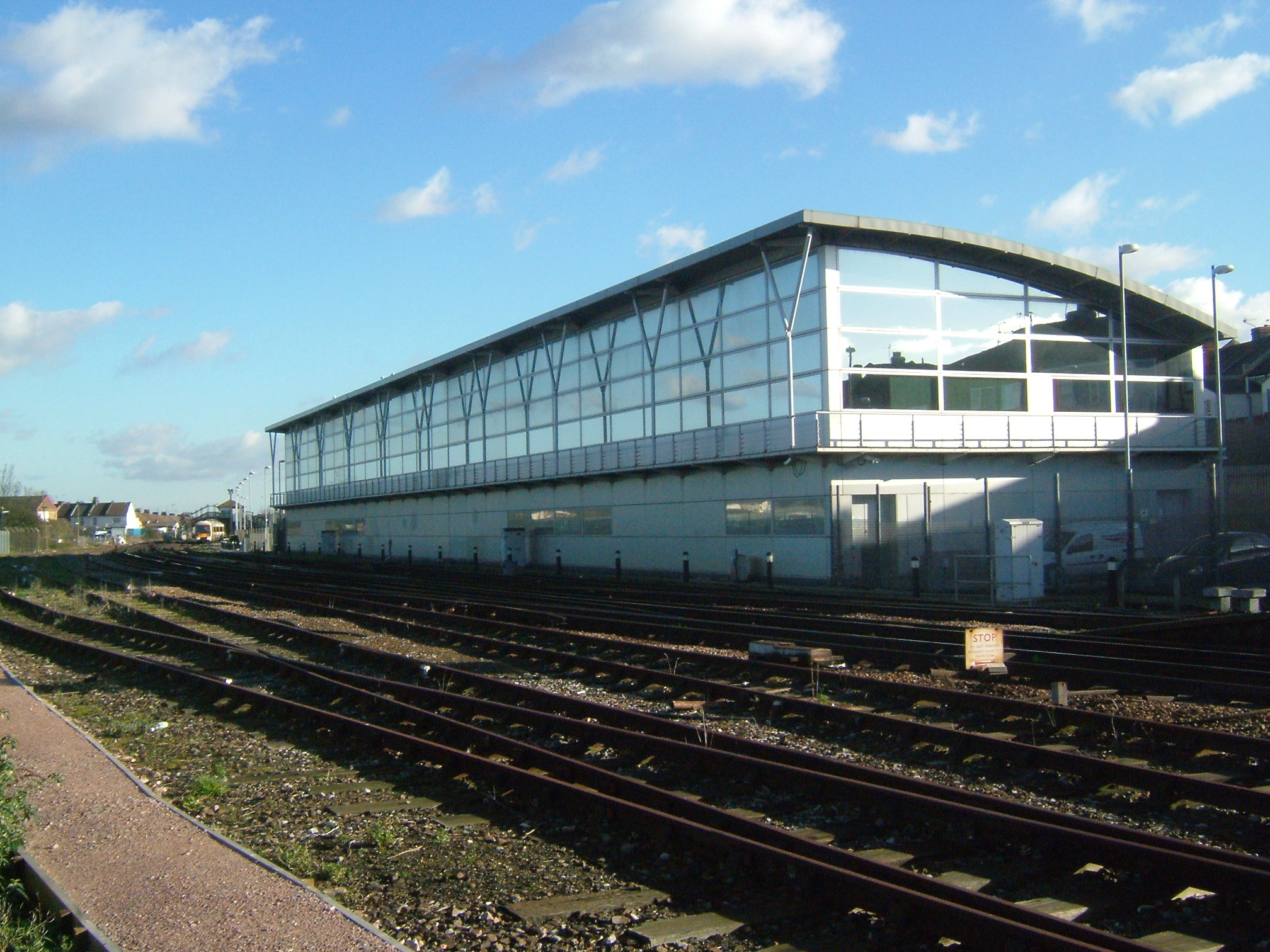 Gillingham, Kent is on the Chatham Main Line. It has a station a level crossing and a depot. Trains on the North Kent Line terminate here. Control centre - Google Maps - Google Earth